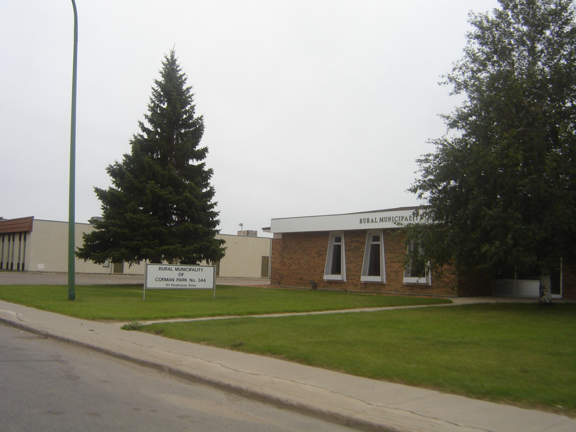 Corman Park No. 344, Saskatchewan Corman Park Municipal Office 111 Pinehouse Dr Saskatoon, SK S7K5W1 Lawson Heights, Saskatoon